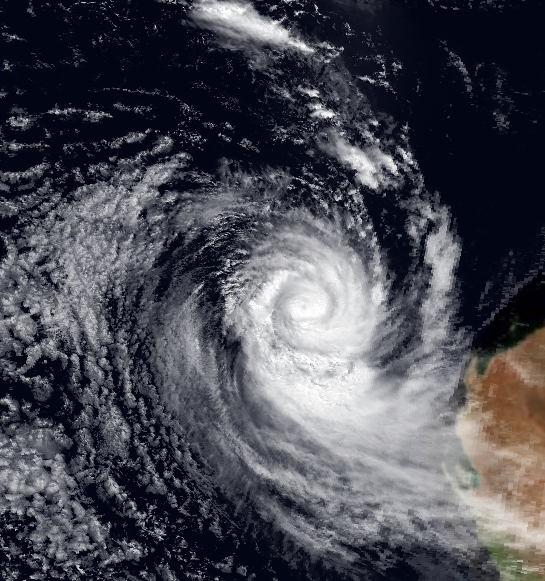 Image of Severe Tropical Cyclone Willy of the 2004-05 Australian region cyclone season on 12 March 2005